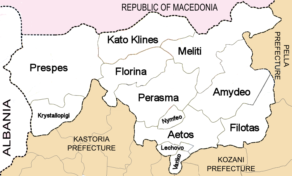 Map of the Florina Prefecture, West Macedonia, Greece, showing the political subdivisions, namely the municipalities and communities, with names in Roman characters of subdivisions and surrounding political units. Data (but not graphics) from Official political map of municipalities and communities of the Florina prefecture, published by the Greek Ministery of Interior Affairs (EYSE), and official political and geophysical map of the municipalities and communities of the Florina prefecture, published by the prefecture administration (nomarchiaki aftodiikisi).